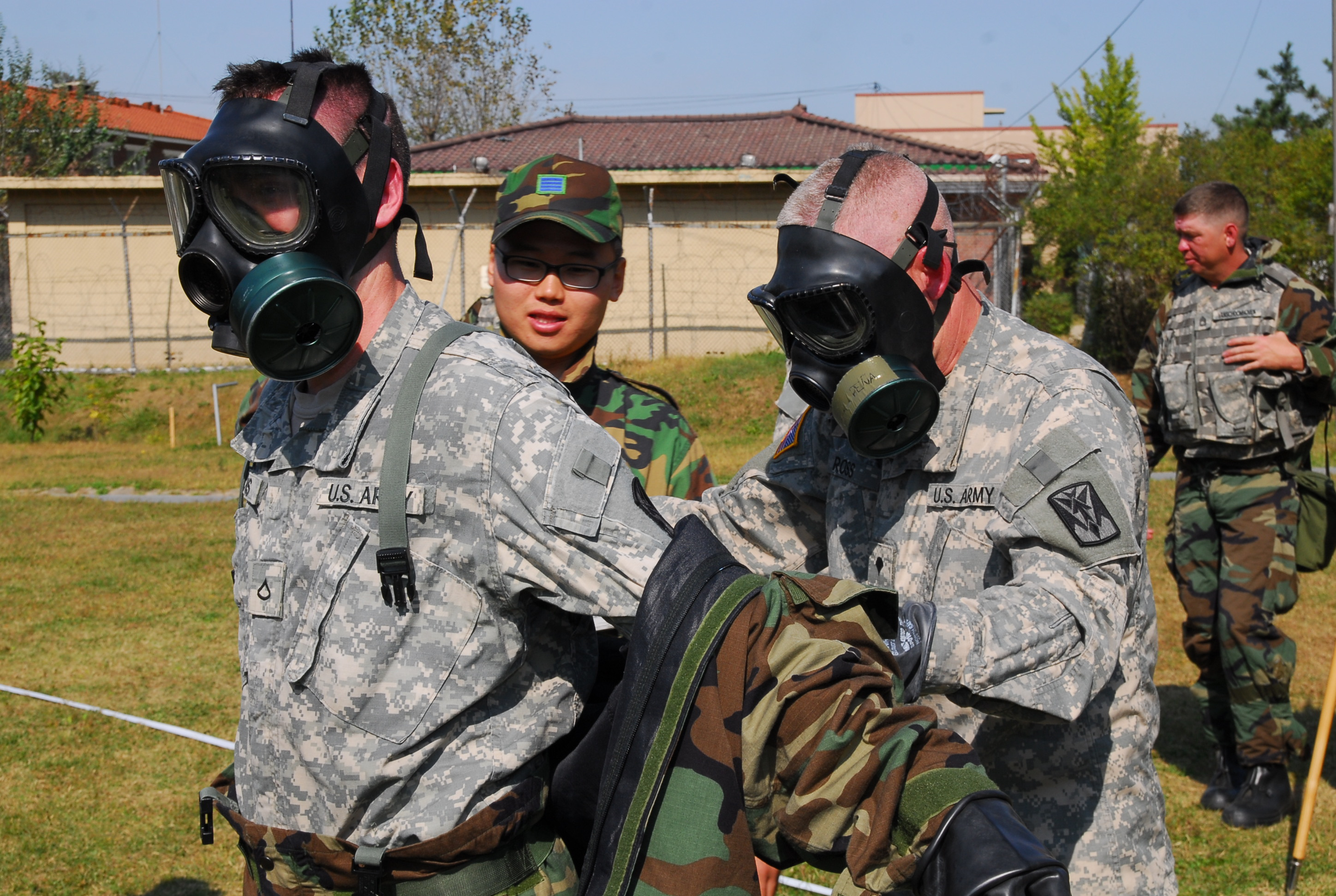 Soldiers from Headquarters and Headquarters Battery, 35th Air Defense Artillery Brigade and Airmen from the Republic of Korea Air Force conducted a combined CBRN training exercise at Osan Air Base, Korea on Oct. 9. The exercise included decontamination operations in MOPP 4.